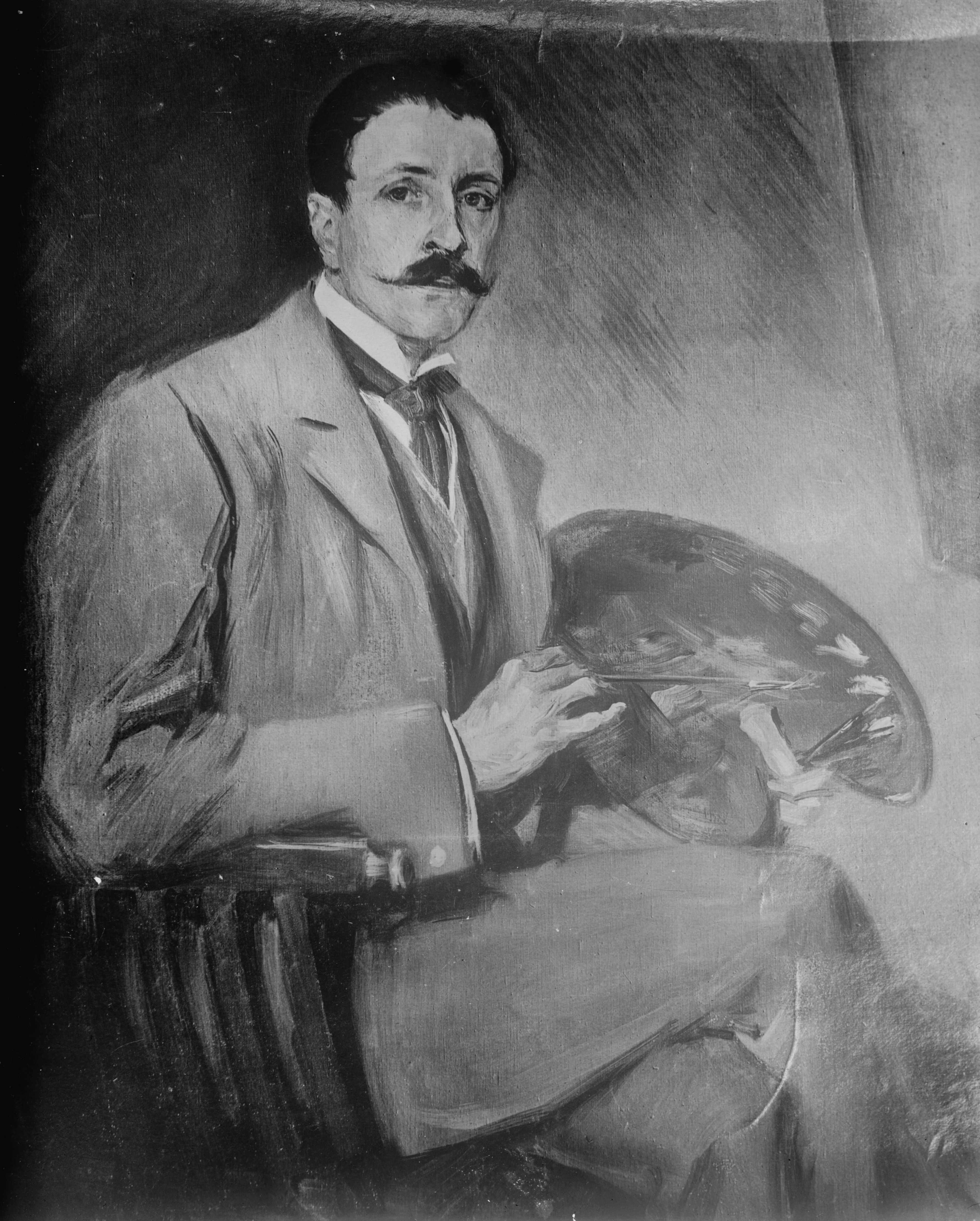 British painter and illustrator John Elliott (1859-1925) by Spanish painter José Villegas Cordero (1844-1921)